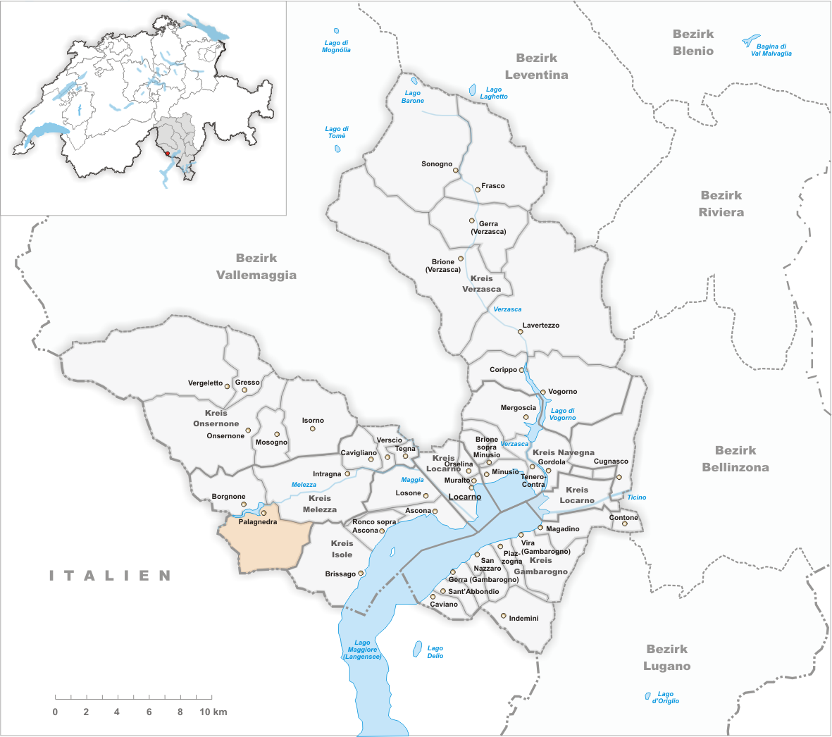 Municipality Palagnedra